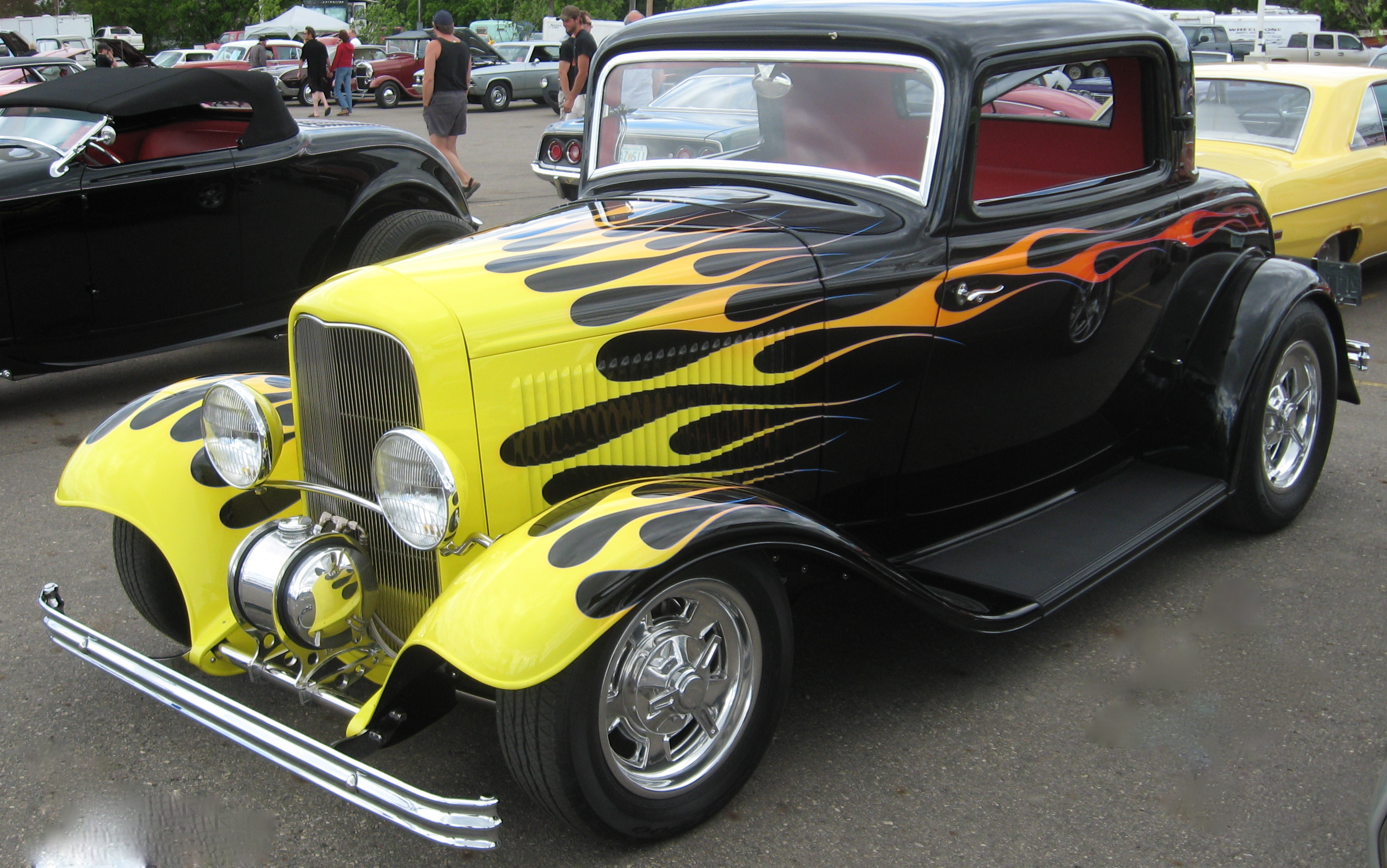 custom car, shot at local car show/swap meet